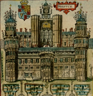 John Speed - 1610 - Map of Surrey - detail: Nonsuch Palace